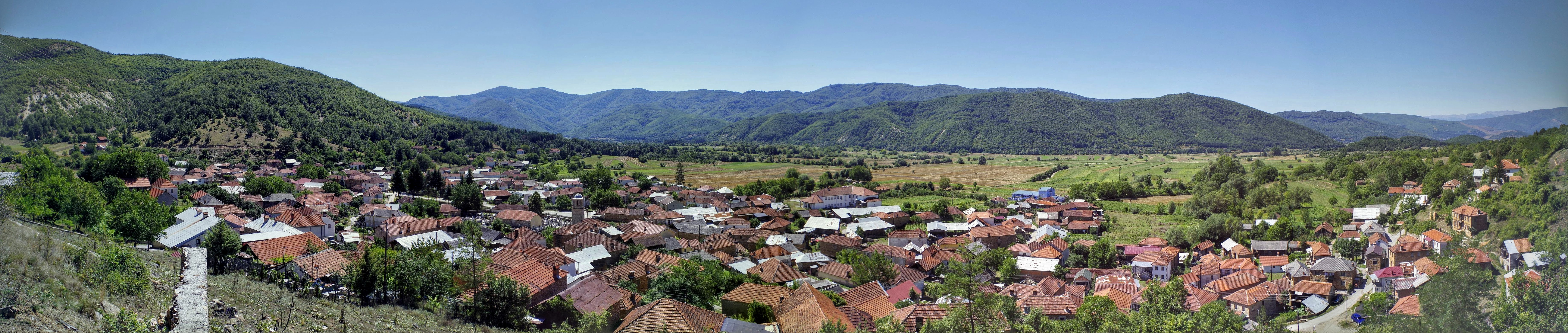 Panoramic view of the village Velmej, Macedonia